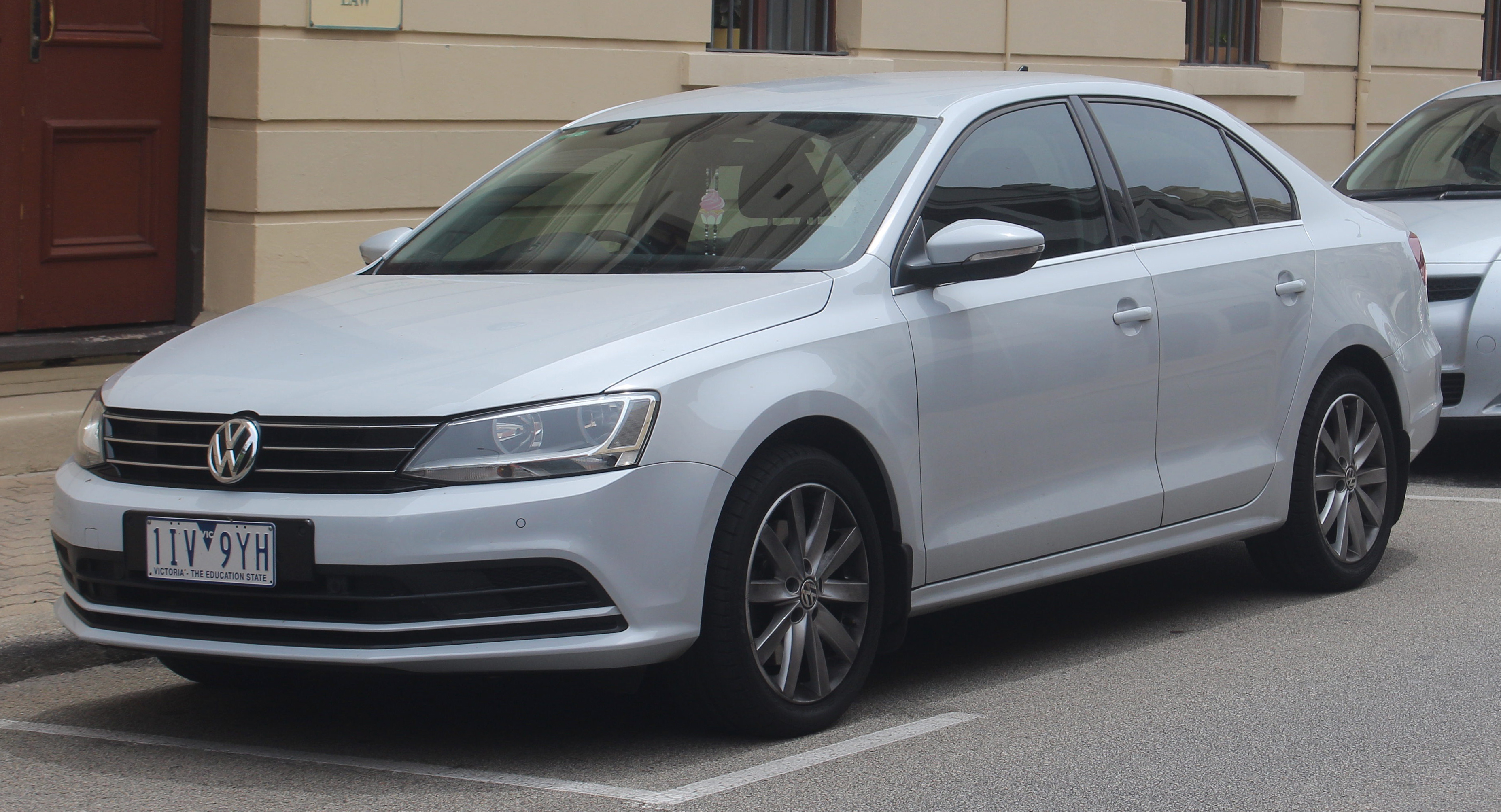 2016 Volkswagen Jetta (1B MY17) 118TSI Comfortline sedan. Photographed in Fremantle, Western Australia, Australia.